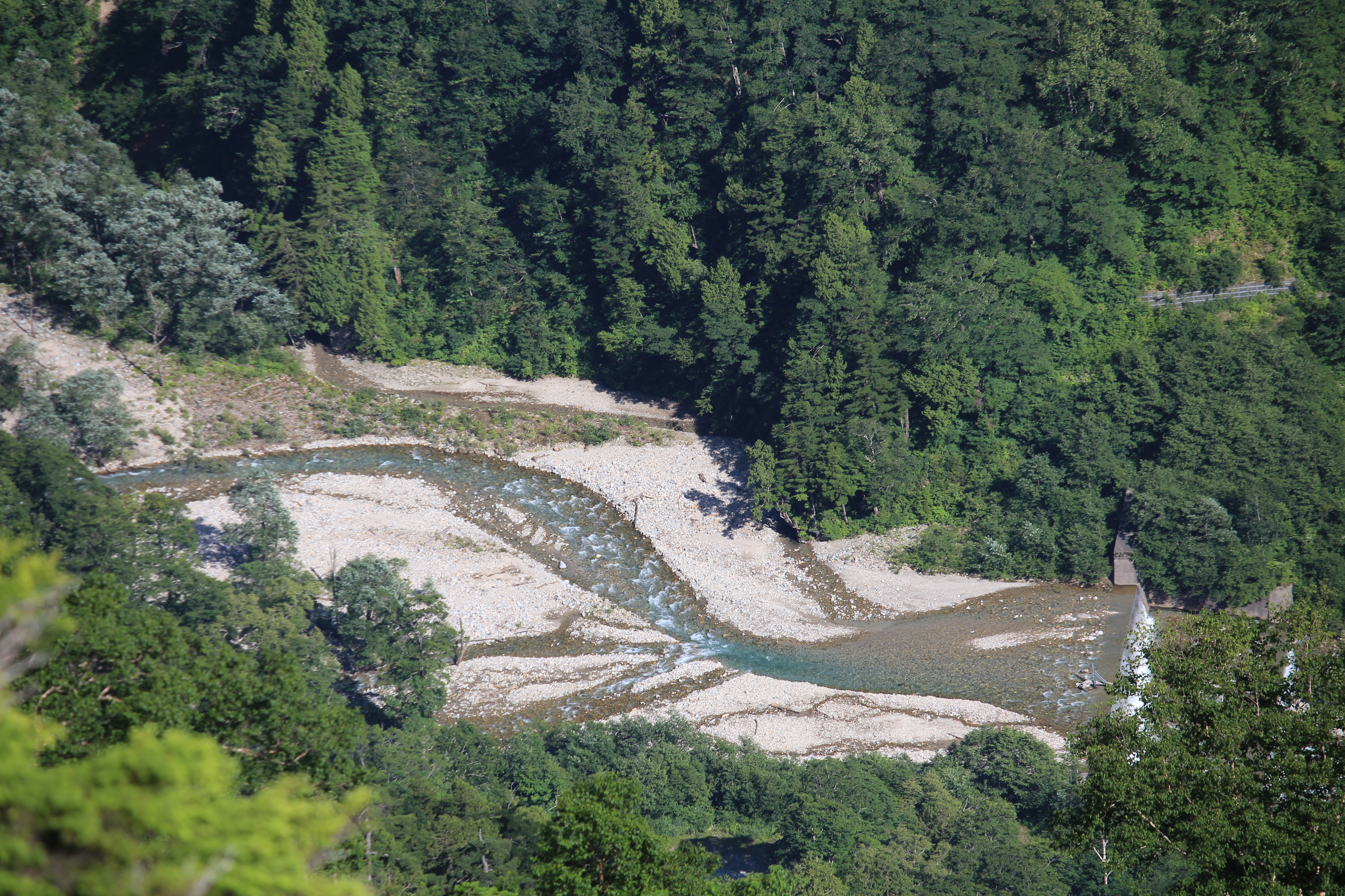 Gamata River seen from Mount Nukedo (Kasa-shindo), in Takayama, Gifu prefecture, Japan.